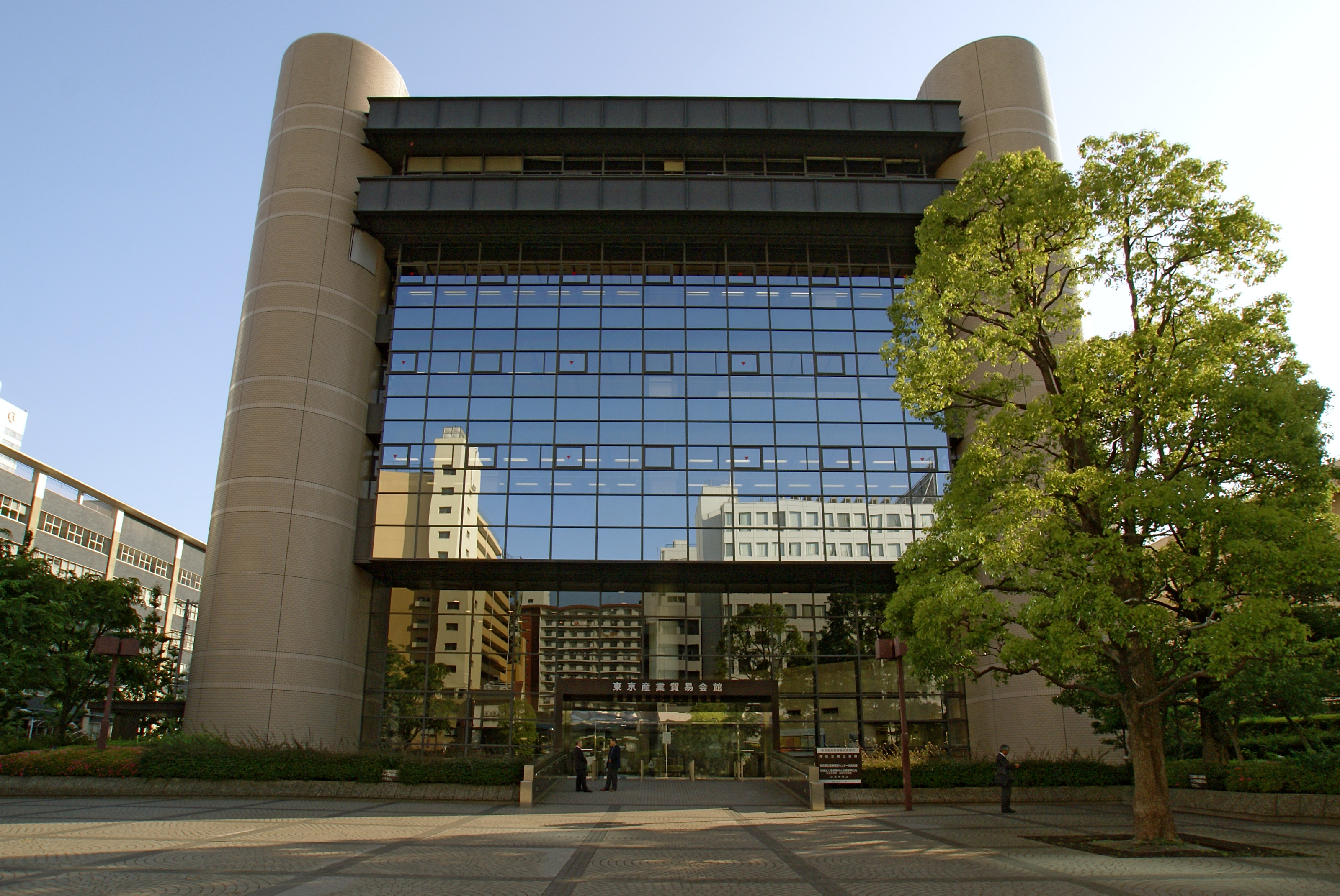 Tosanbo Hamamatsucho in Minato-ku, Tokyo, Japan